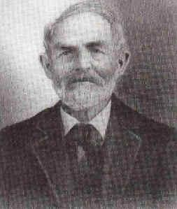 Image of Henry Wickenburg, taken in c.1900. Wickenburg died on May 14, 1905, eighteen years before the 1923 copyright laws applied.